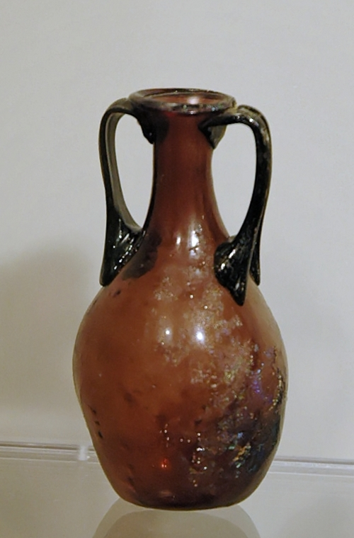 Two-handled amphora-shaped balsamarium (perfume flask).